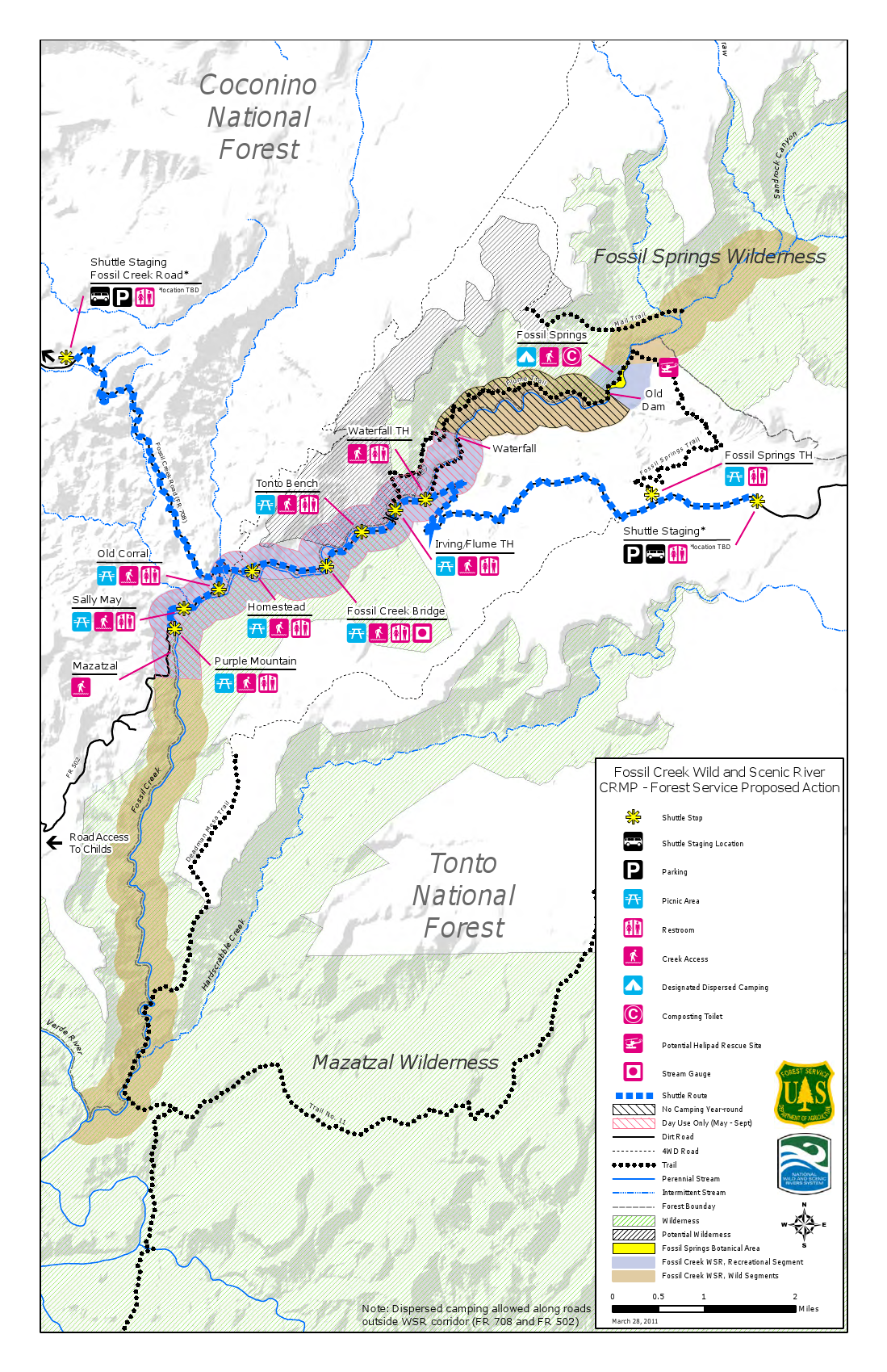 Map of the Fossil Creek watershed in the U.S. state of Arizona showing existing features as well as proposed features